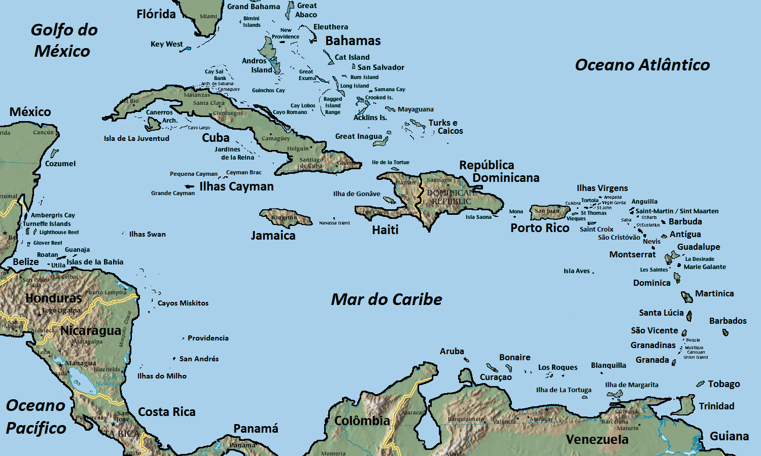 Maps of Caribbean Islands. Self modified from here.